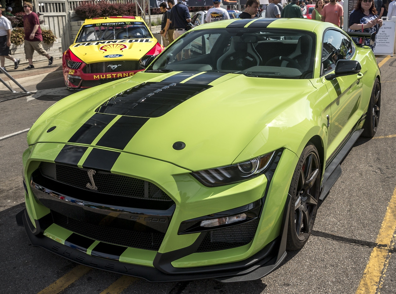 2020 Shelby GT500 in Grabber Lime